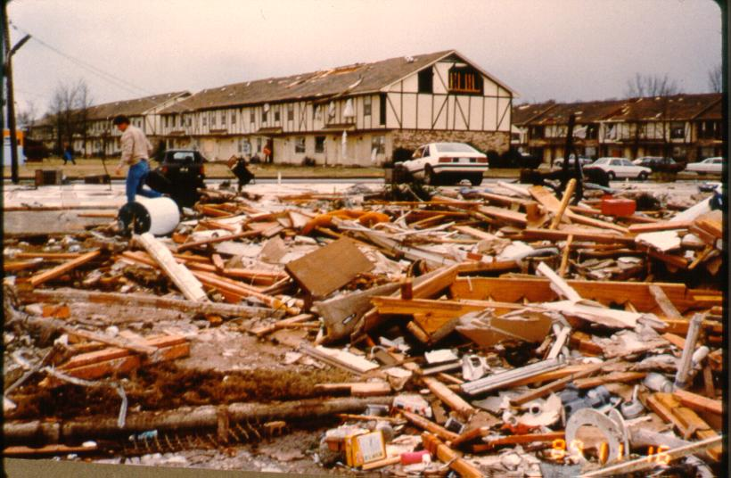 EF4 damage in the foreground at Waterford Square Apartments: These are remains from a completely destroyed apartment building, similar to the ones seen in the background.